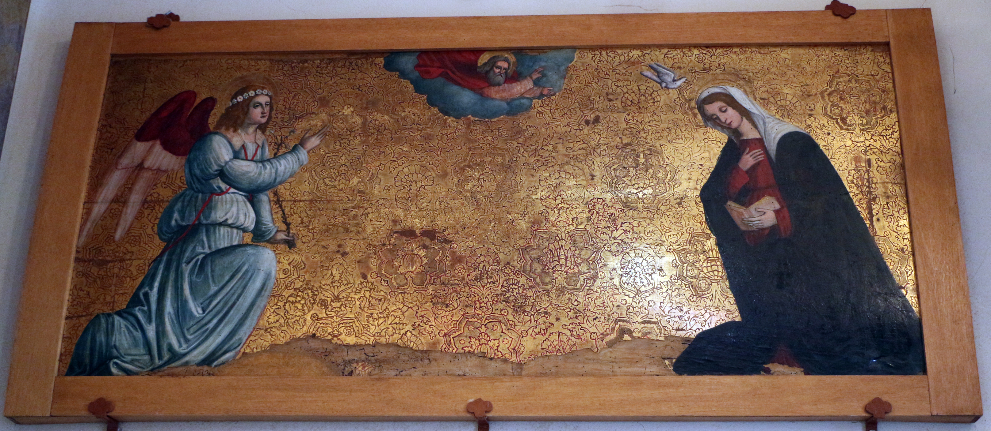 San Nicolò (Zanica) - Museum